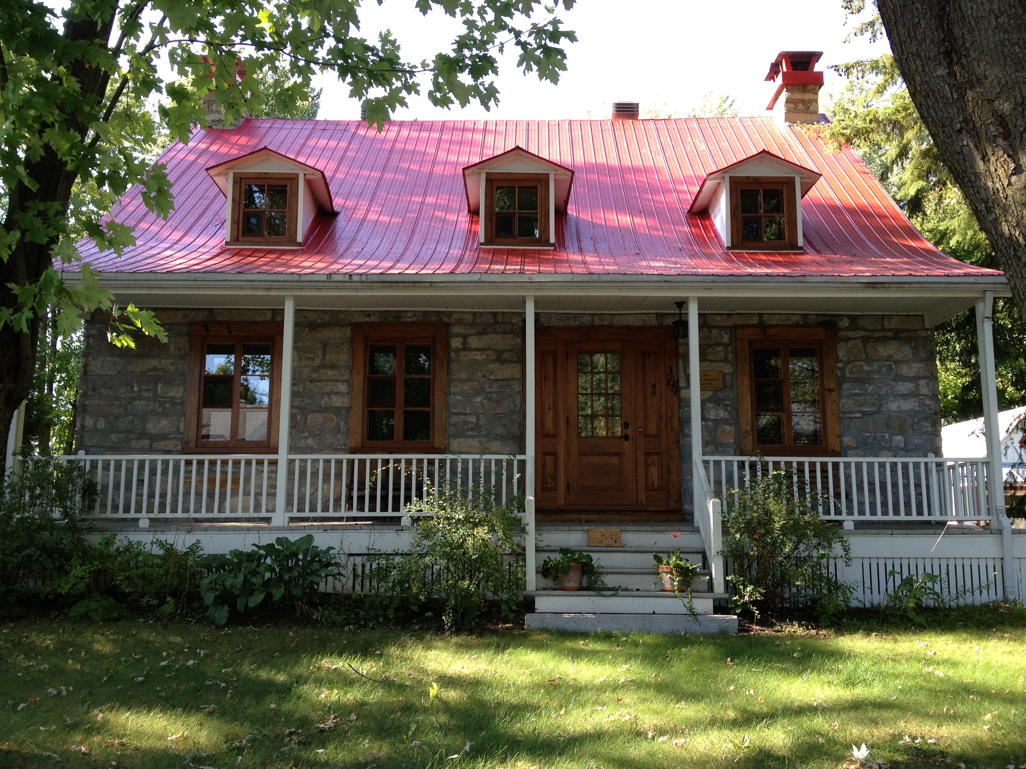 Maison Hubert-Maisonneuve